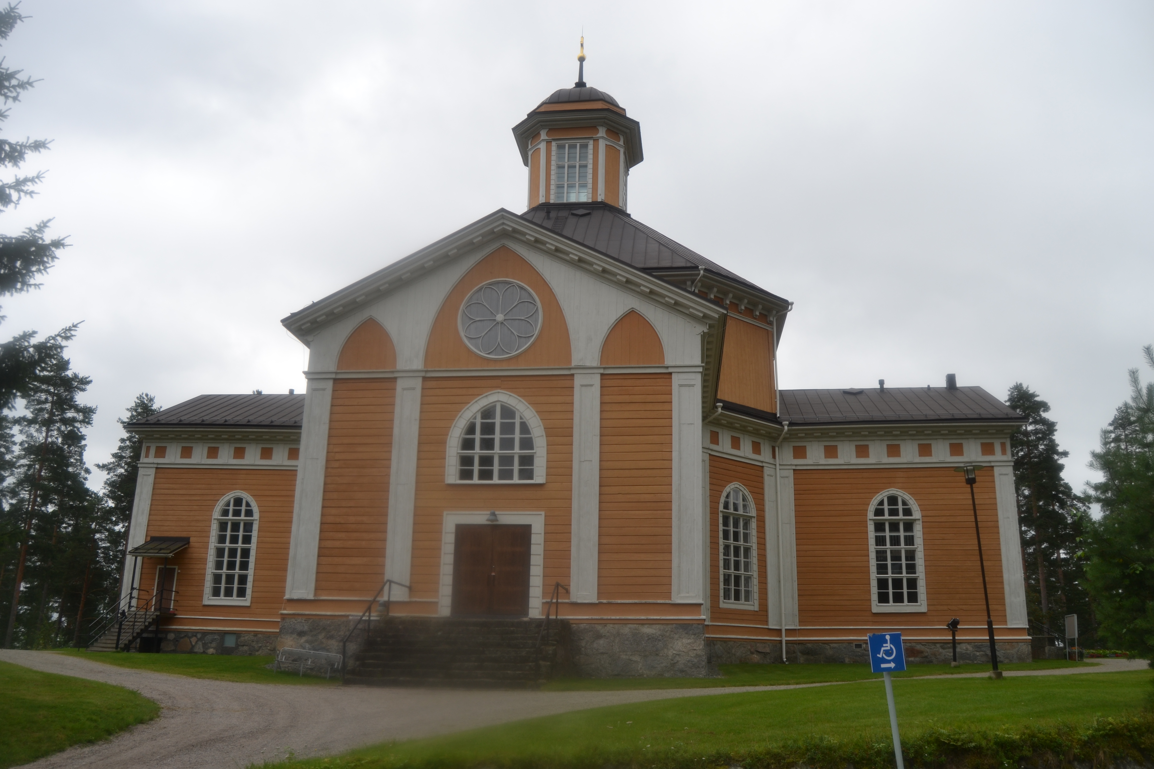 Laukaa Church in Laukaa, Finland